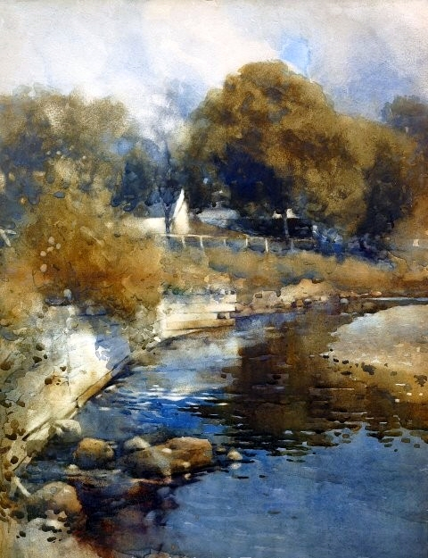 Craigdarroch Water. Moniaive is surrounded by hills, and lies at the point where the Dalwhat Water, Craigdarroch Water and Castlefairn Water converge to form the Cairn Water, which flows down the Cairn Valley to join the River Nith just north of Dumfries.